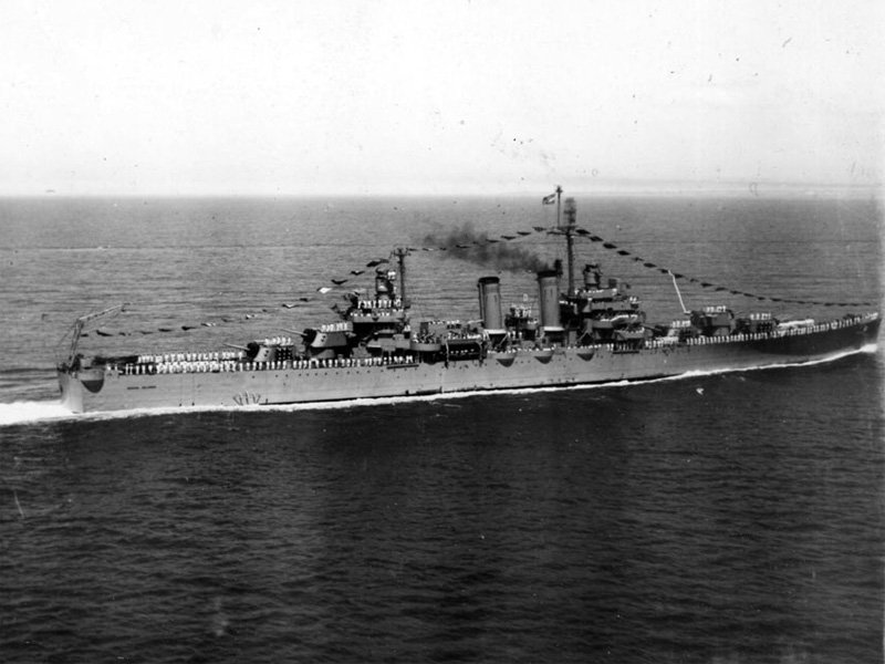 The Argentine cruiser ARA General Belgrano (C-4) underway. Her appearance is identical to the time when she was decommissioned by the U.S. Navy as USS Phoenix (CL-46), in July 1946. Only the catapults were removed. She was first commissioned as ARA Diecisete de Octubre (C-4) on 17 October 1951 and renamed General Belgrano in 1956.